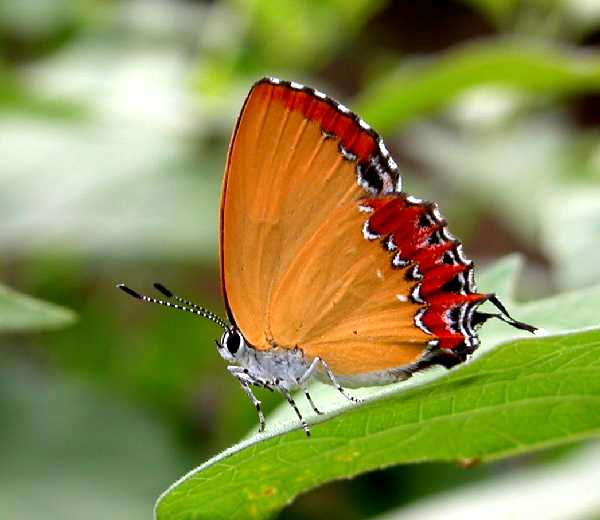 Purple Sapphire (Heliophorus epicles) photographed in Jairampur, Arunachal Pradesh, India.